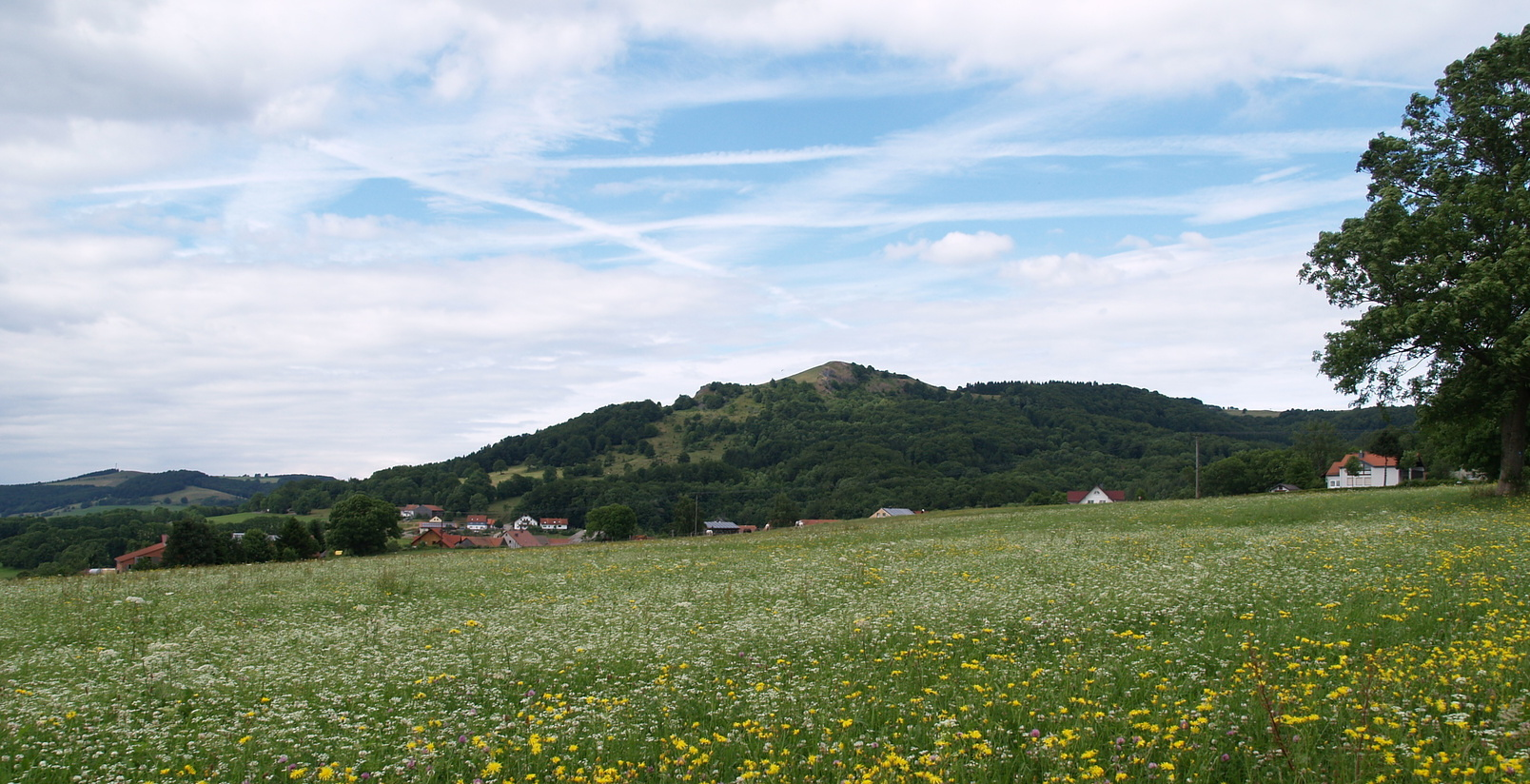 Pferdskopf, Rhön, Germany